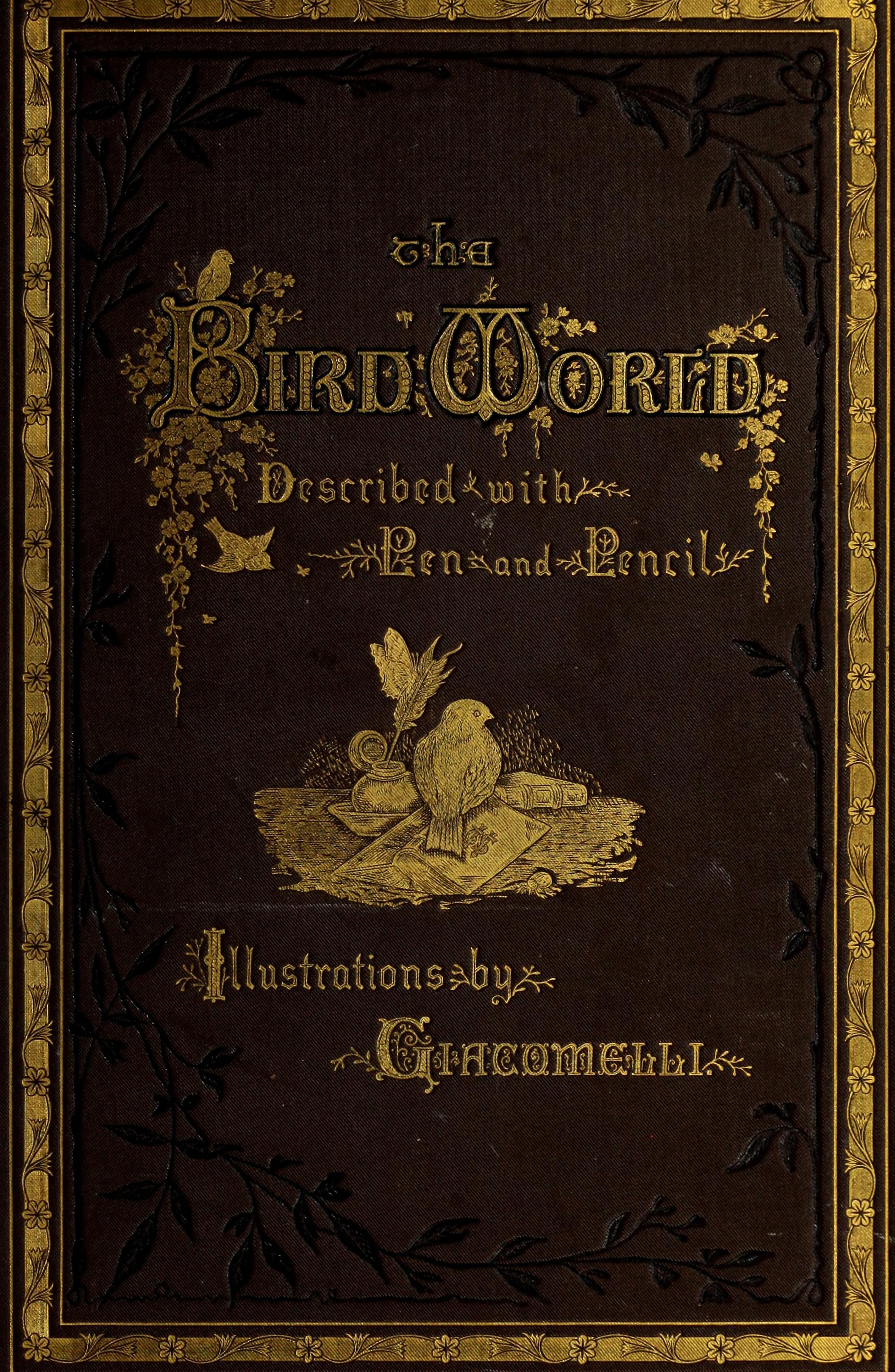 Front cover